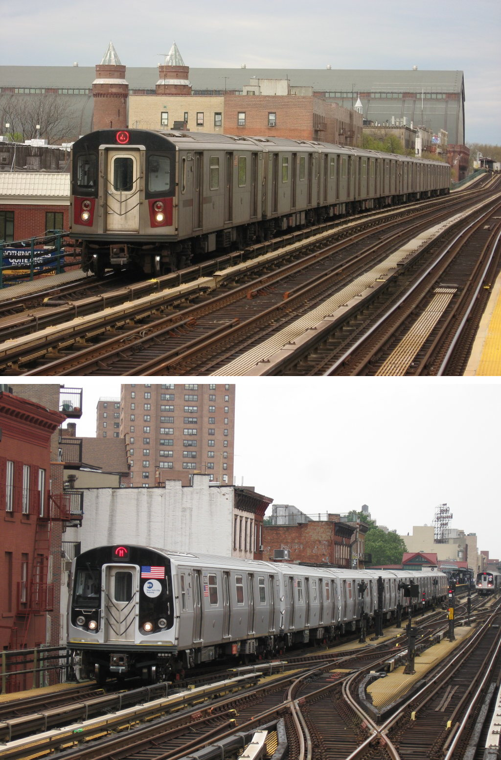 Top: #1236 enters Fordham Road on the 4 (Jerome Avenue El) in the Bronx, NY.Bottom: #8357 enters Hewes Street (Broadway-Brooklyn) on the M in Brooklyn, NY.